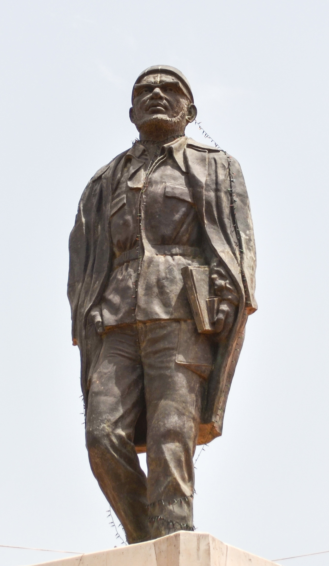 Osvaldo Vieira statue at the Airport's roundabout of Bissau's airport. Bissau, Guinea-Bissau.